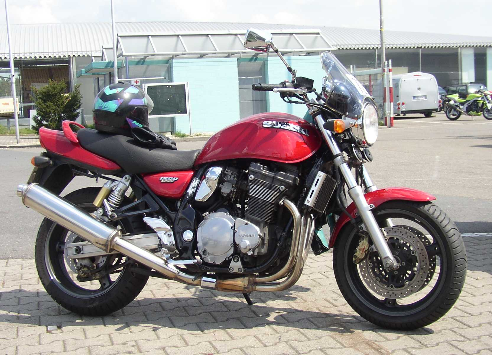 Motorcycle Suzuki GSX 1200 Model 1999 with additional windshield